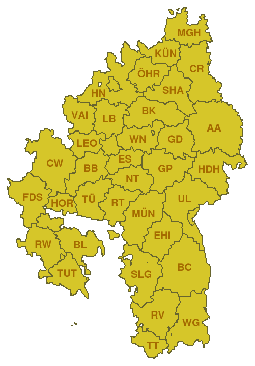 Map of the counties (Landkreise) in Württemberg as of 1938. With minor exceptions, this status remained until the end of 1972.